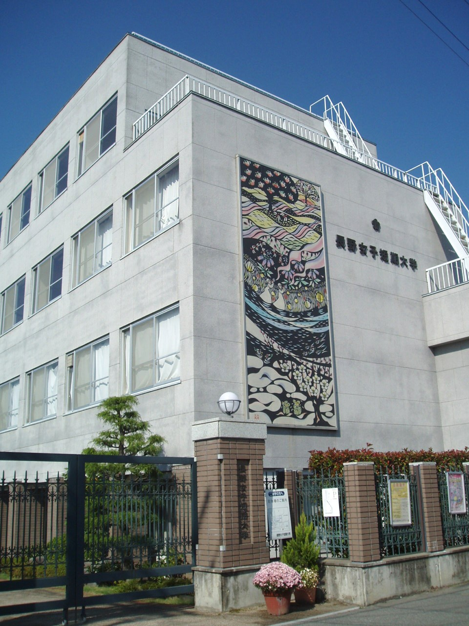 Nagano Women's Junior College located in Nagano, Nagano, Japan